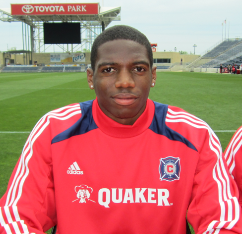 Sean Johson, Chicago Fire's goalkeeper, at the Meet the Team event, 29 Apr 2012 at the Toyota Park